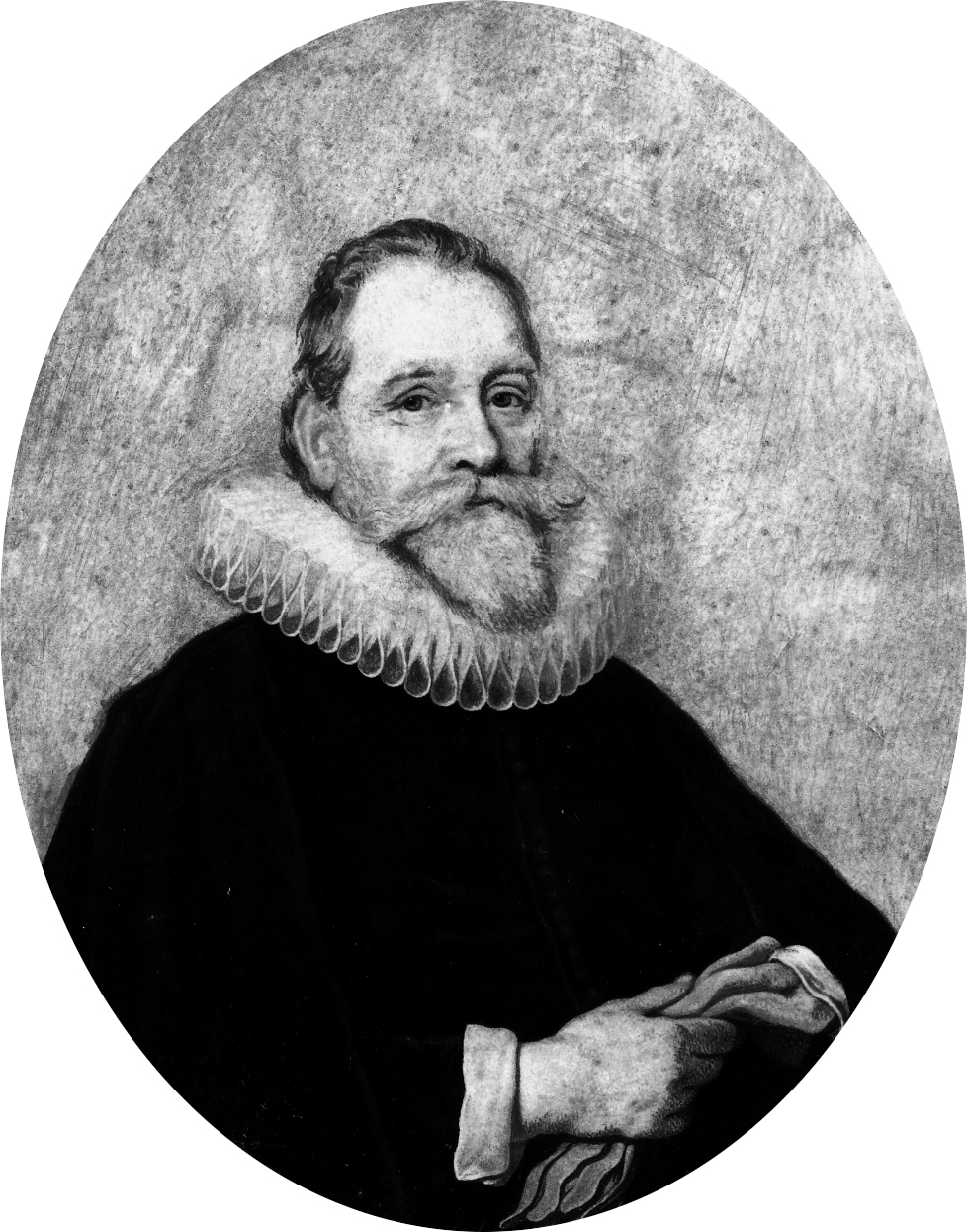 Dirck Jacobsz. Bas (1569-1637)